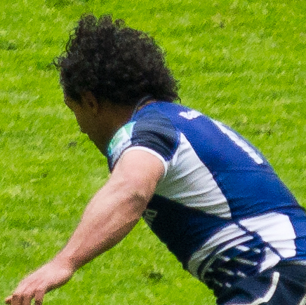 Taken at the Heineken Cup Final 2012